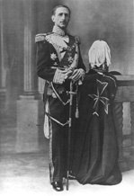 Francisco de Paula de Borbon y de la Torre, duke of Seville, grand of Spain